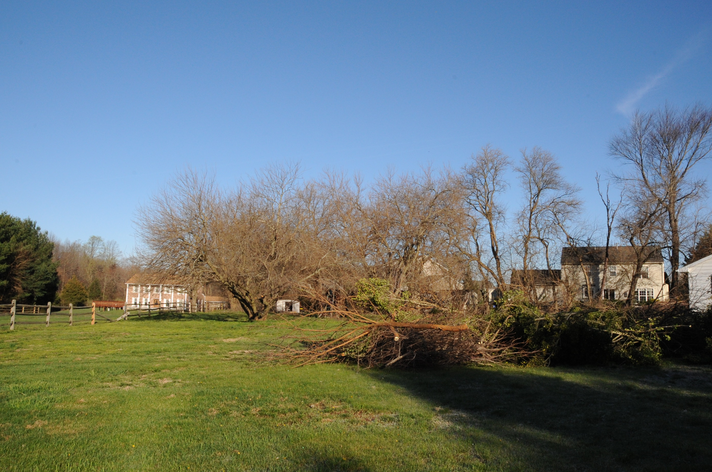 THIS IS THE VIEW FROM THE AREA OF THE SIGN. THE HOUSE IN THE BACKGROUND IS NOT RELATED TO DUNCAN BEARD